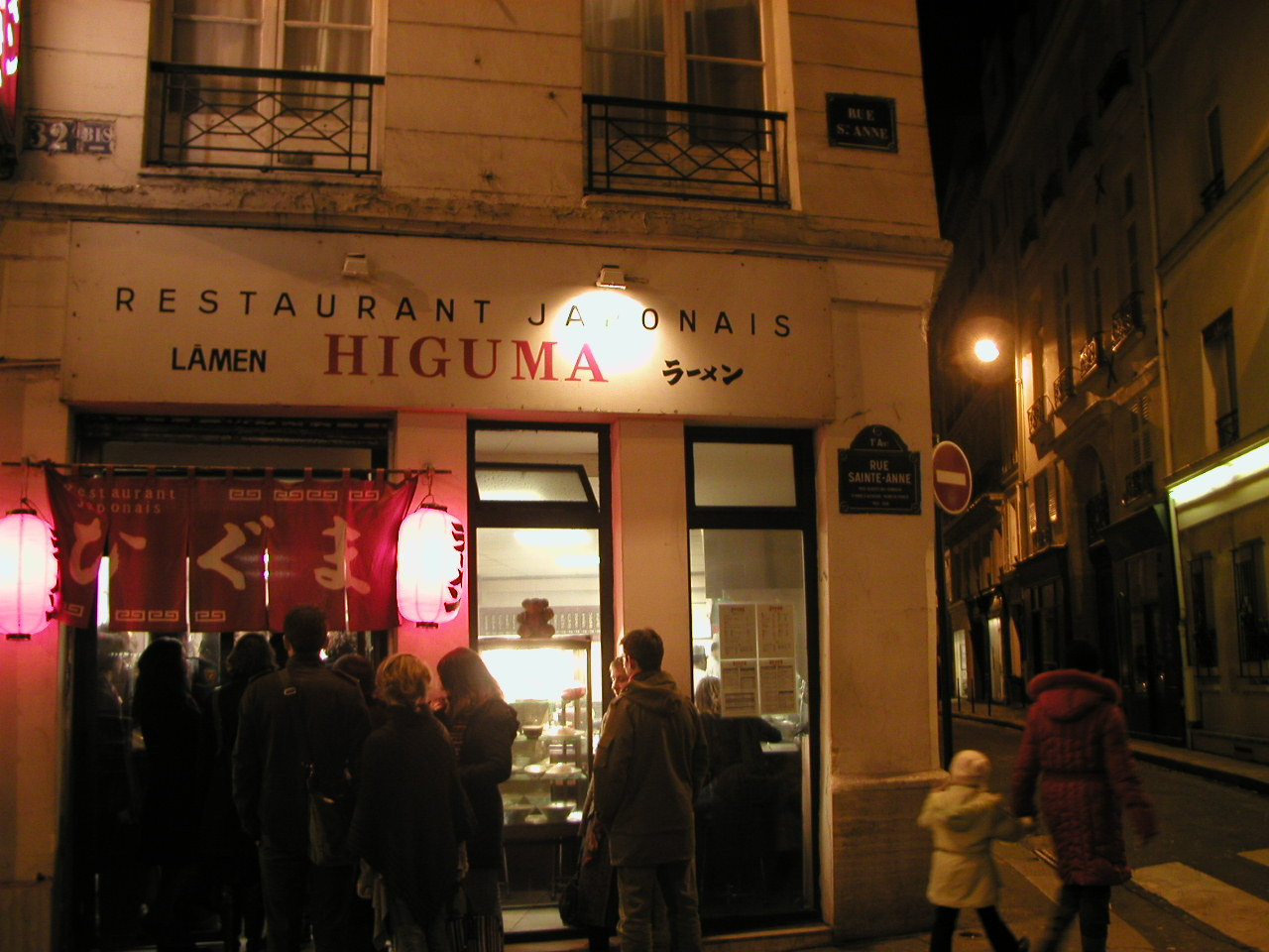 The BEST Japanese ramen restaurant in Paris. You have to try the cold ramen, and you will know why.